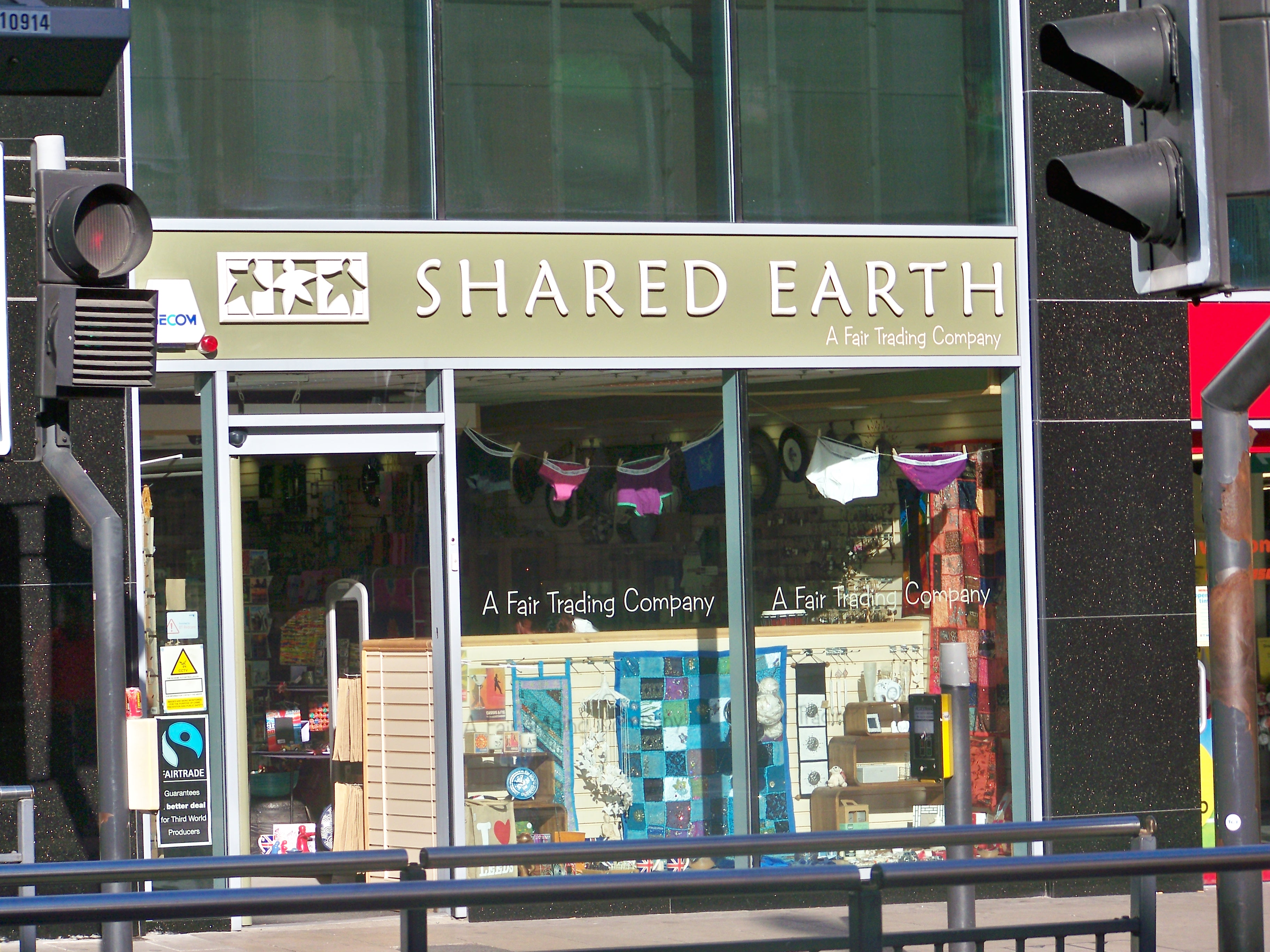 Shared Earth on Woodhouse Lane in Leeds, West Yorkshire. The shop is part of the Merrion Centre complex. Shared Earth is a 'fair trade' shop. Taken from the opposite side of Woodhouse Lane on the evening of Thursday the 27th of May 2010.